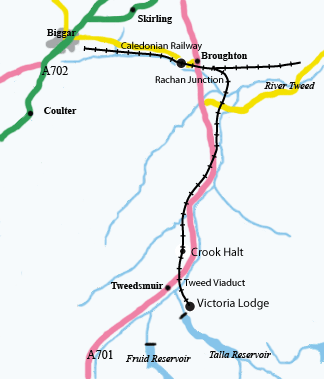 With acknowledgement to John Furnevel